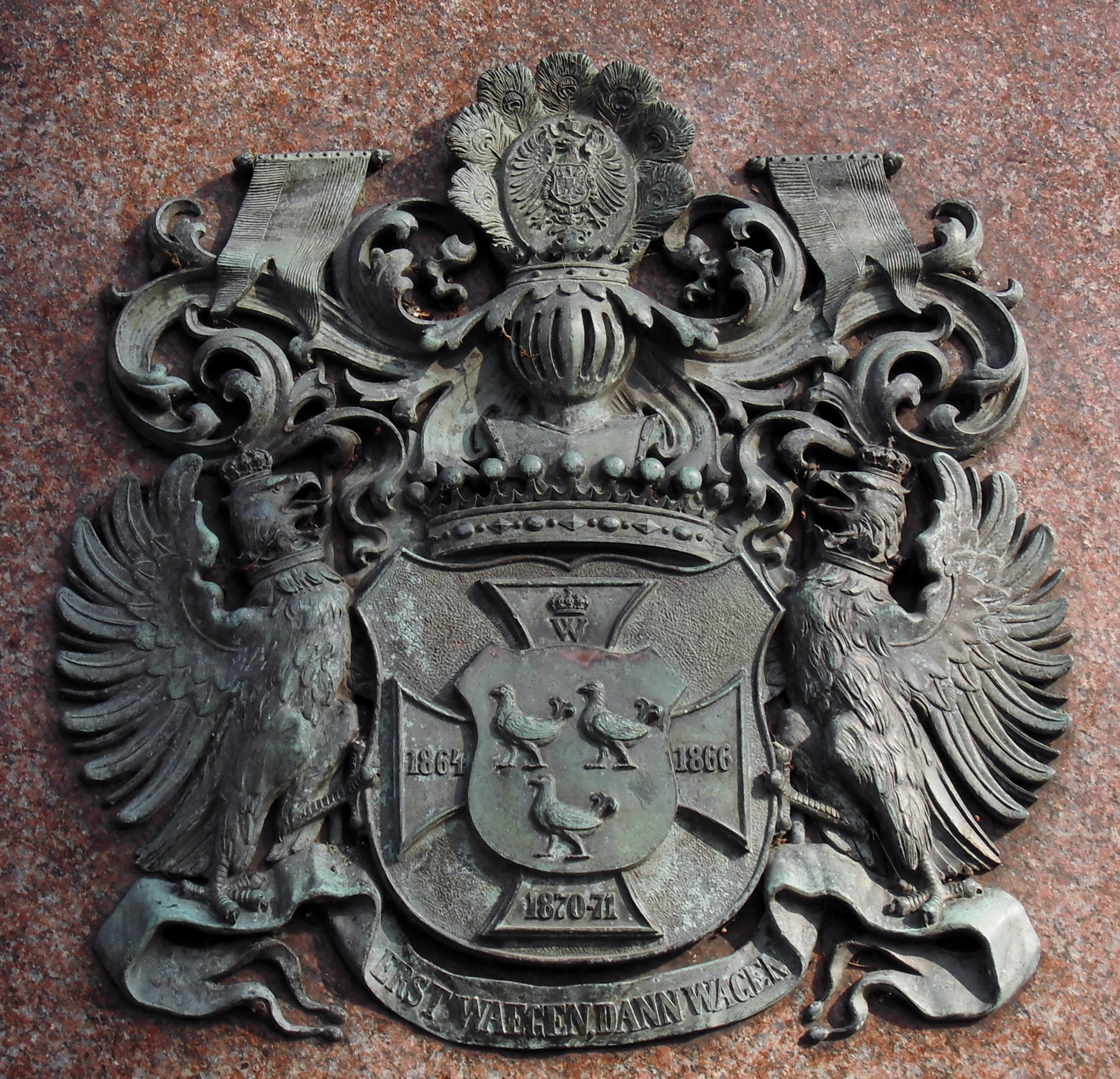 Helmuth von Moltke the Elder - plaque from the Moltke-Memorial in Parchim sculpted by Ludwig Brunow